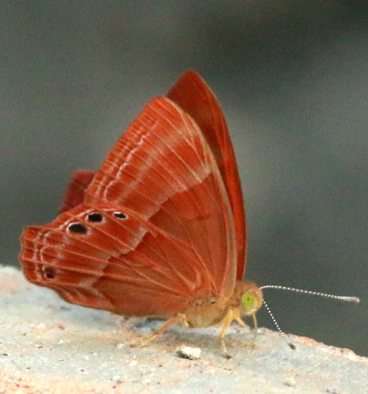 ഇരുവരയൻ ആട്ടക്കാരി Suffused Double banded judy / two spot plum Judy Abisara bifasciata